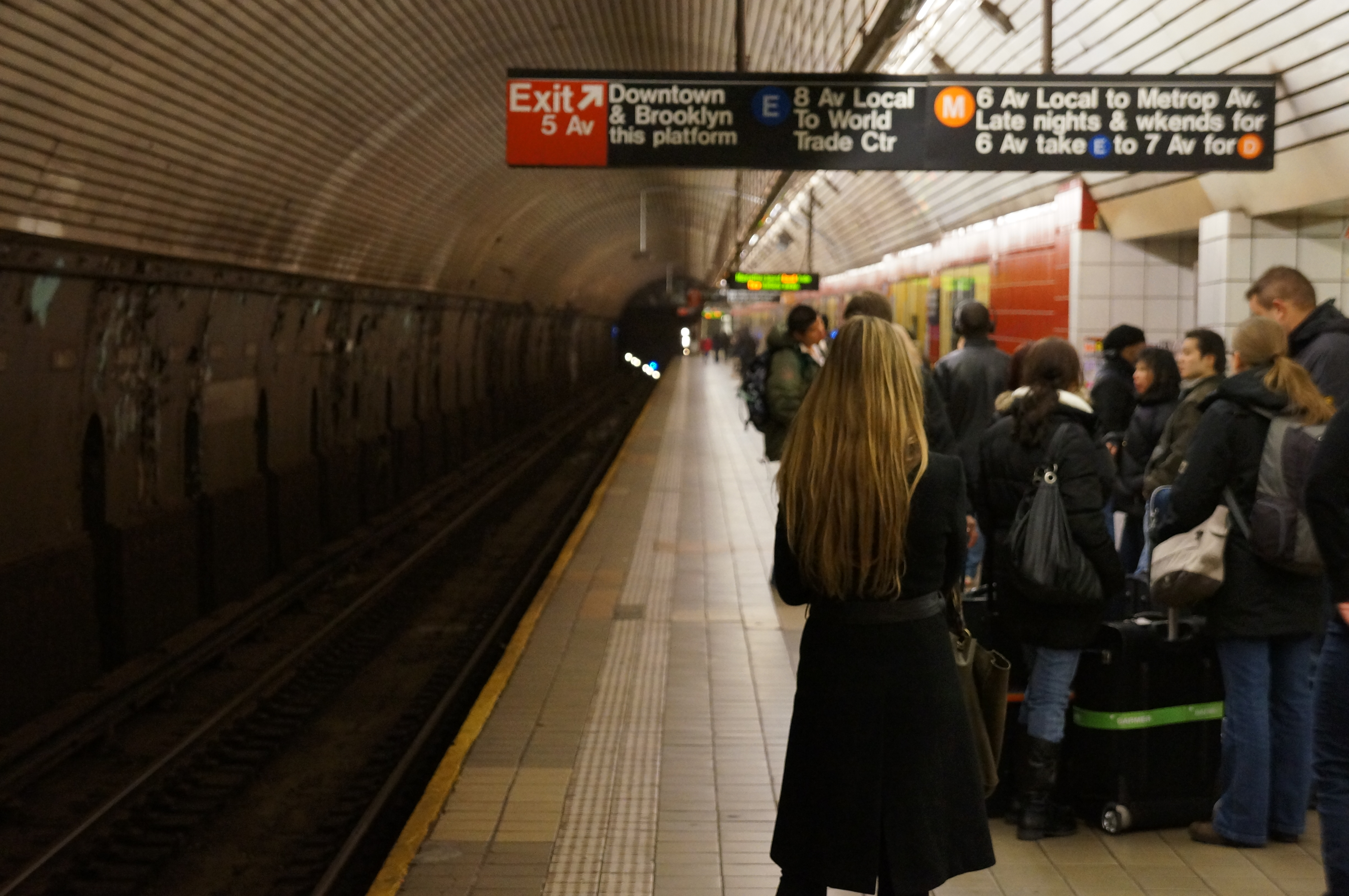 People await the arrival of the Holiday Nostalgia Train at 5 Av-53 St.